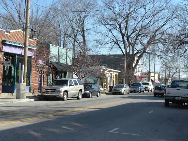 Frankfort Ave in Clifton LOUKY